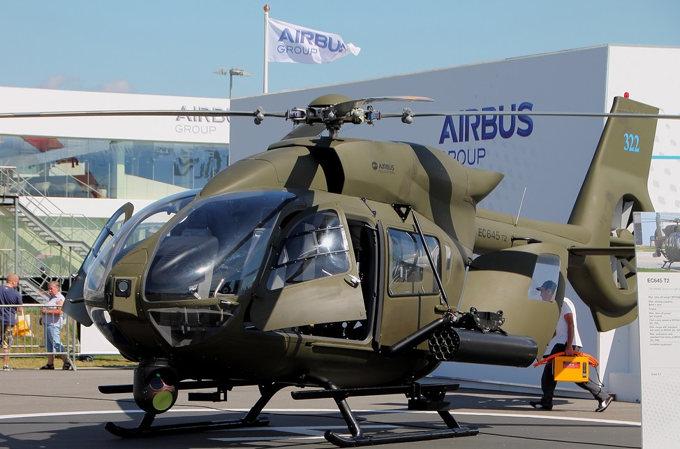 EC645 at the Paris Air Show 2013.